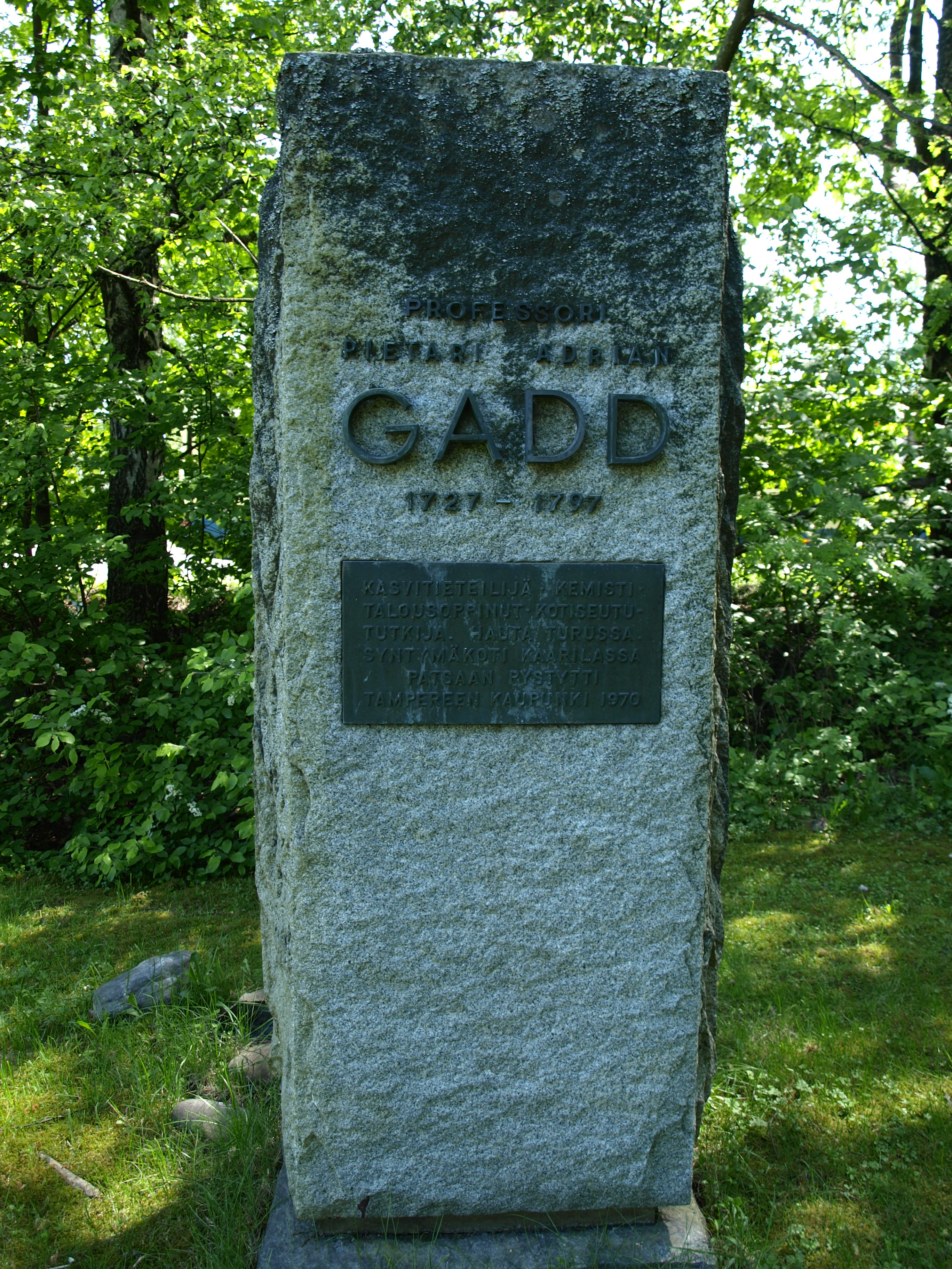 Memorial stone of professor Pehr Adrian Gadd in Tampere, Finland